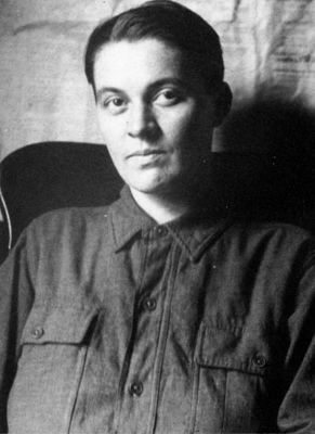 Source: National Archives and Records Administration. Obtained from non-copyrighted U.S. government holdings.